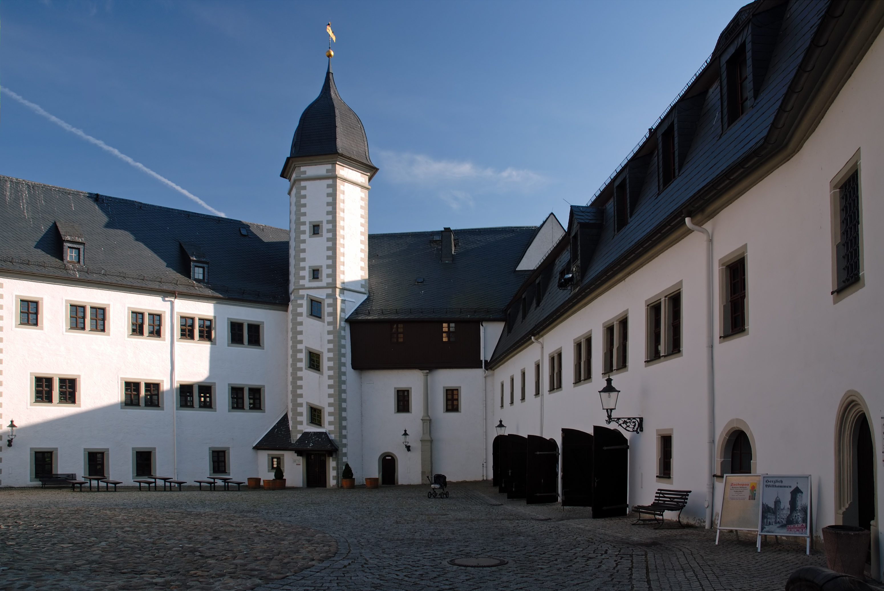 This image shows the courtyard of the castle Wildeck in Zschopau, Germany.